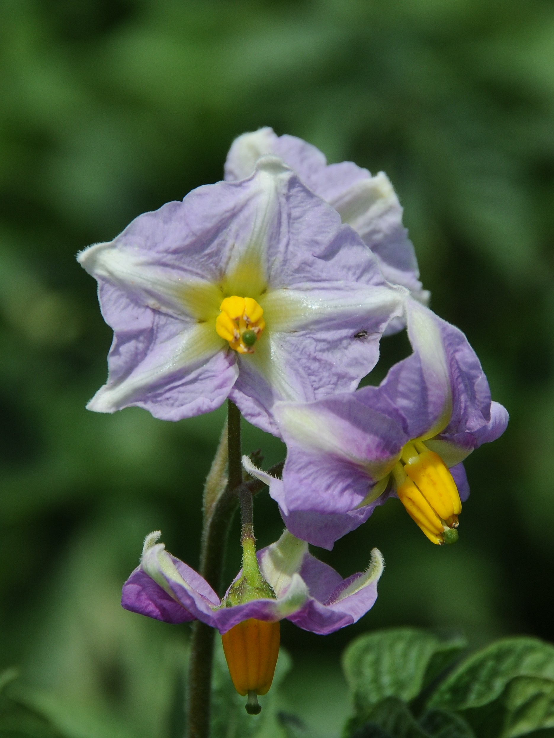 Potato Plant flower